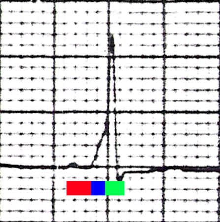 Characteristic EKG finding in WPW syndrome. The red bar represents the PR interval of 0.1 seconds (100 miliseconds). The blue bar represents the slurred upstroke in the QRS complex that is found in WPW syndrome, known as the delta wave. The combination of the blue bar and the green bar make up the QRS complex, which is prolonged (160 miliseconds).